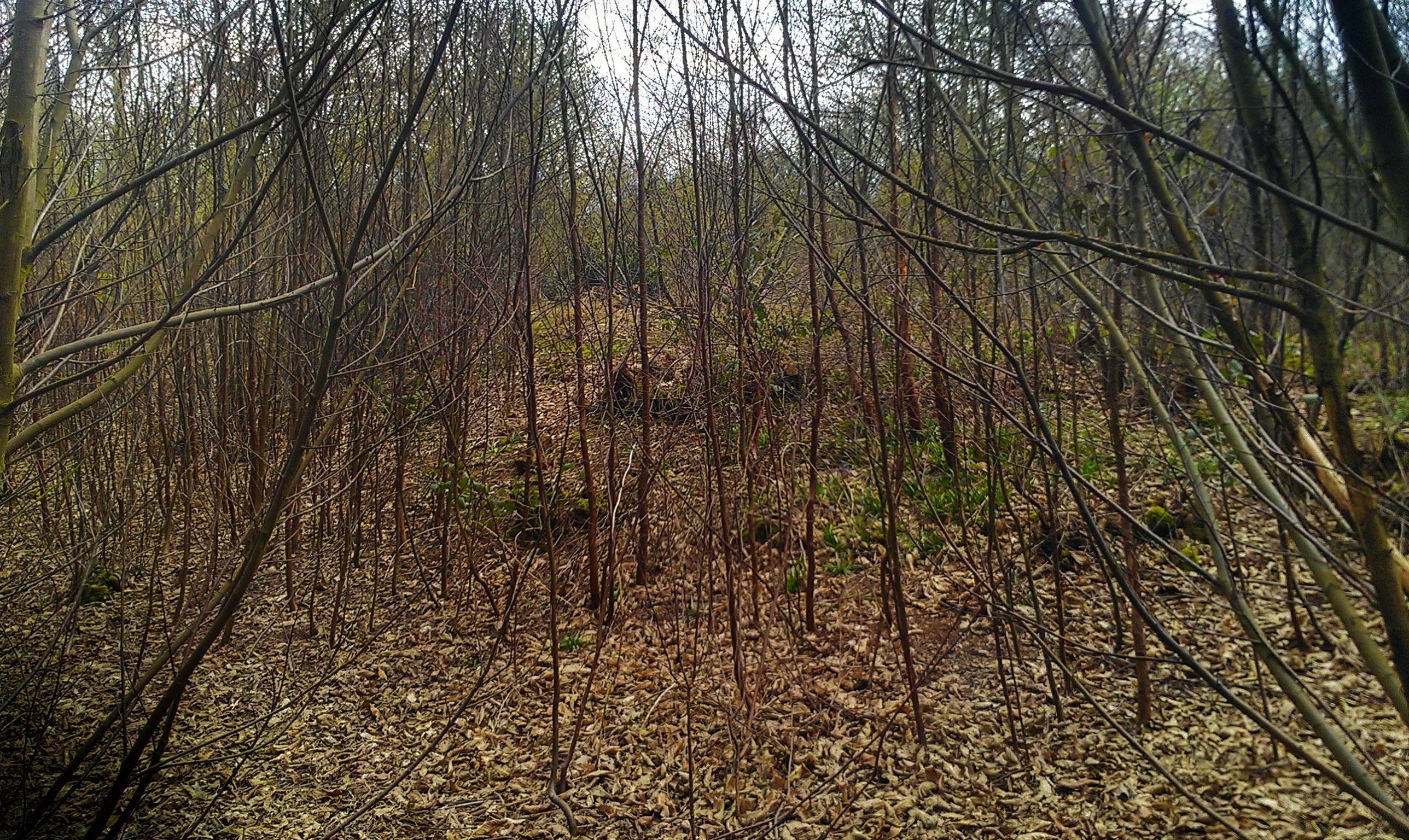 The slope of Shrub's Wood Long Barrow in Kent